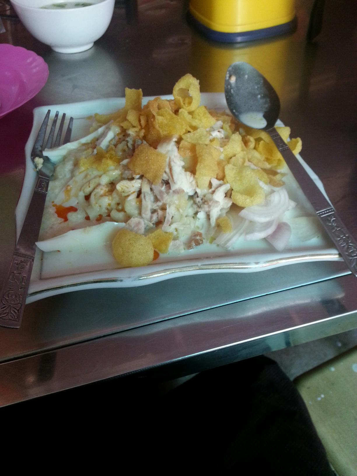 Shwe Taung Noddle, Myanmar Traditional Food combined with Noddle and Coconut Milk